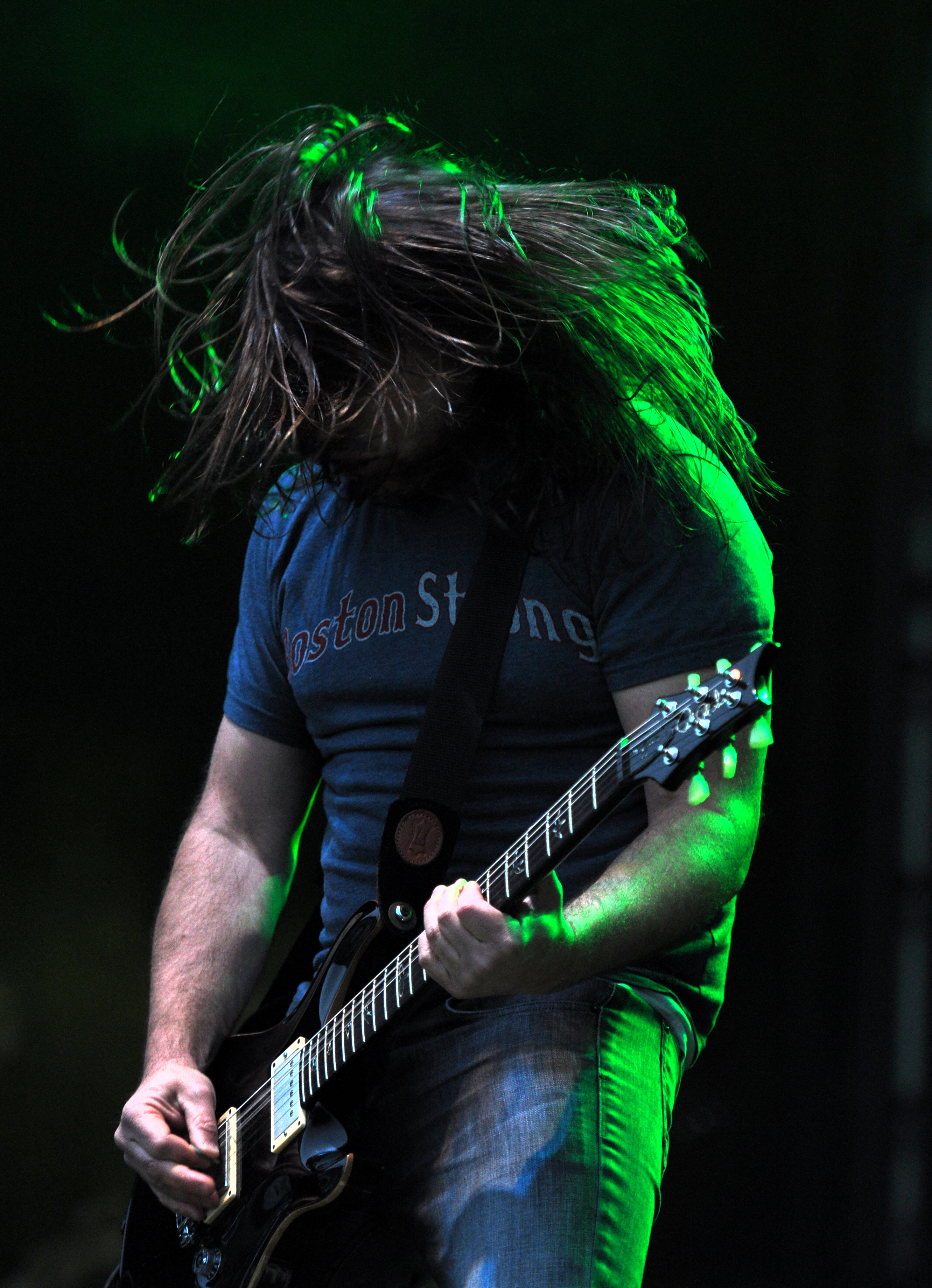 Mike Mushok of Newsted at Rock am Ring 2013